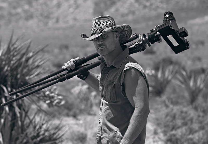 Peter Lik